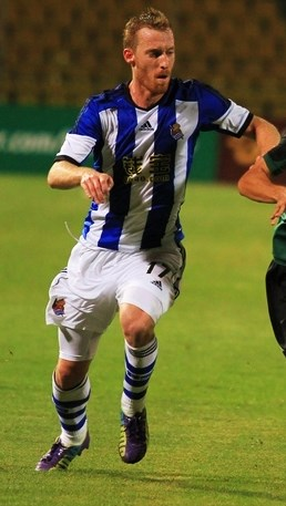 David Zurutuza